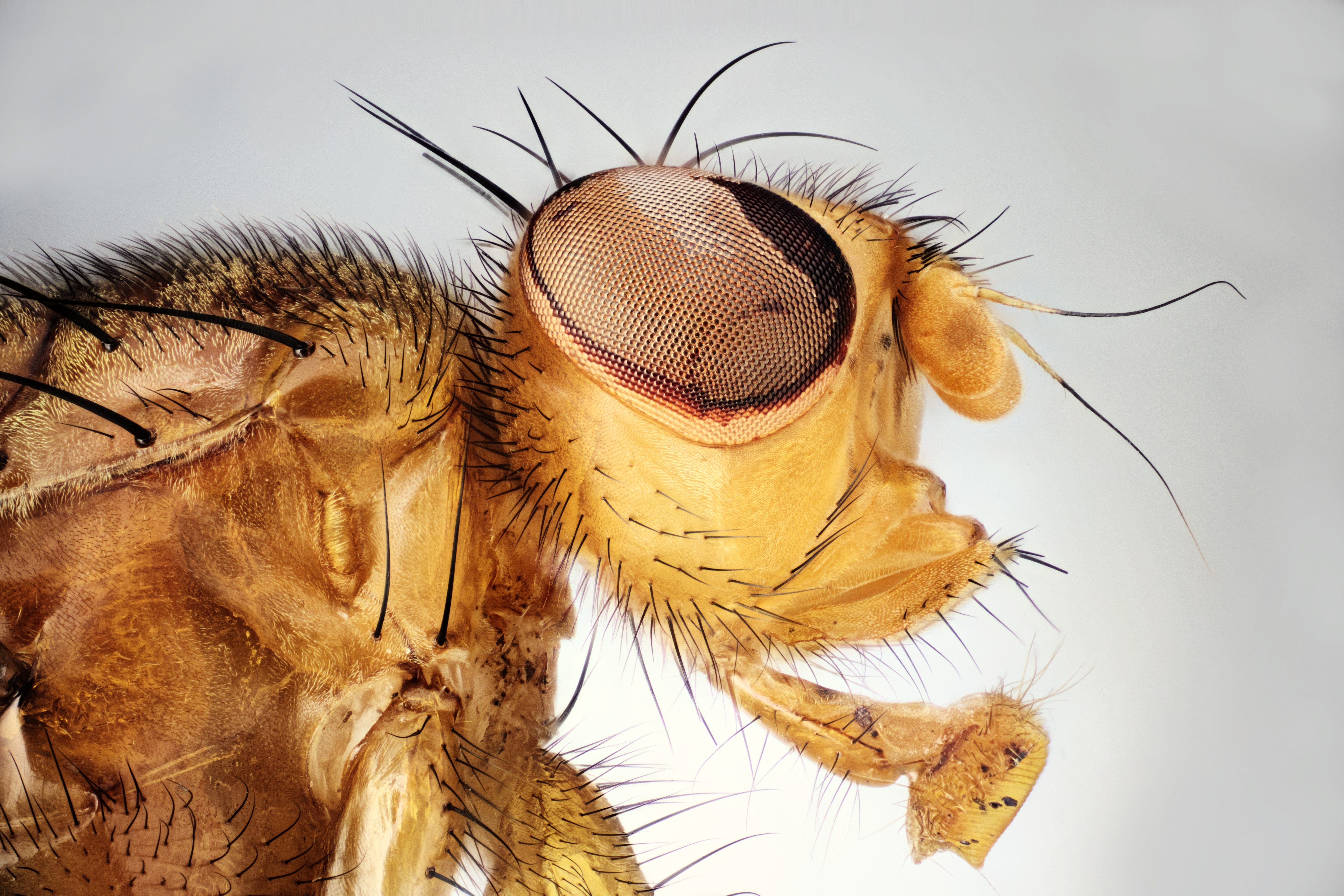 Found on dog poo on path by River Fynn at side of Martlesham Recreation Ground (TM25404726) on 3 November 2015. ID suggested by Ian Andrews and confirmed from key in Dipterists Digest 2005 12, 7-12 "The identification of Dryomyza decrepita Zettterstedt (Diptera, Dryomyzidae)" by Steven J Falk. This shot shows the two strong bristles above front coxa, the arista bare on apical two-thirds and a hint of the overhanging frons.